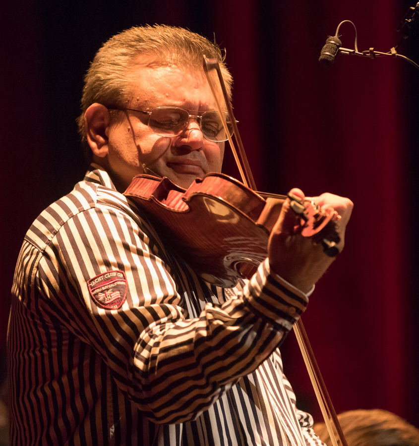 Martin Weiss performs with Brady Winterstein Trio at Cosmopolite. The concert was part of Djangofestivalen 2017 and took place on 21. January 2017 in Oslo. Lineup: Brady Winterstein (guitar) Hono Winterstein (guitar) Xavier Nikq (double bass) Martin Weiss (violin)